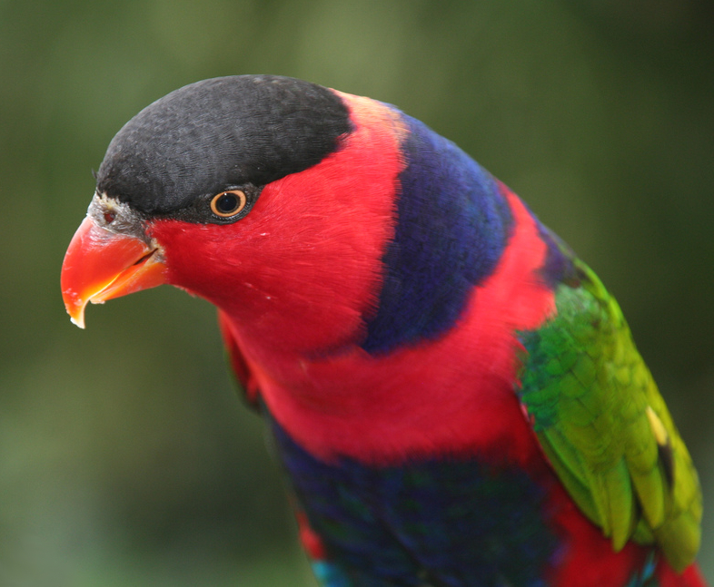 Black-capped Lorikeet (Lorius lory) at Jurong Bird Park, Singapore (taken with a Canon 350D DSLR).